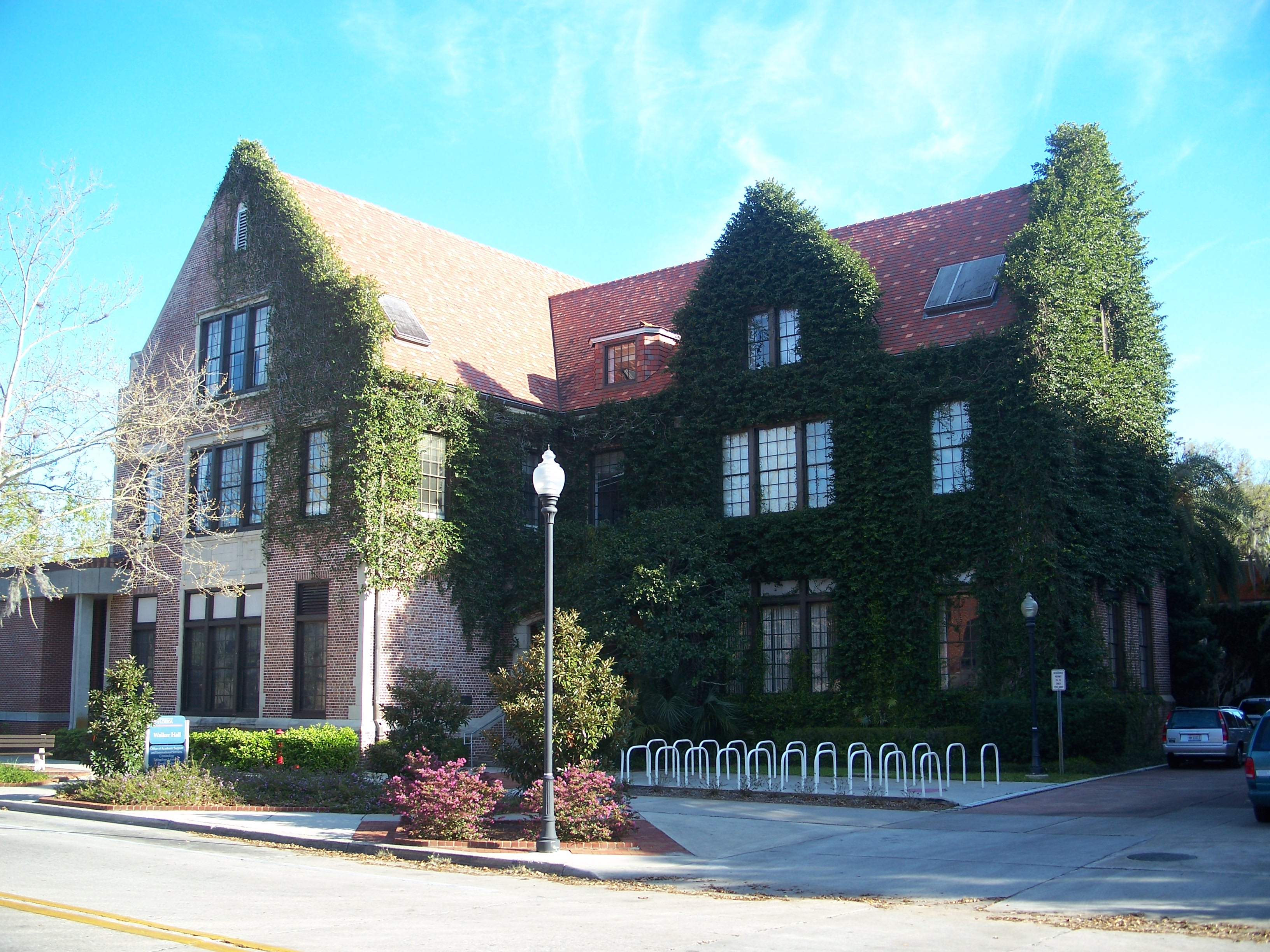 Walker Hall, part of the University of Florida Campus Historic District